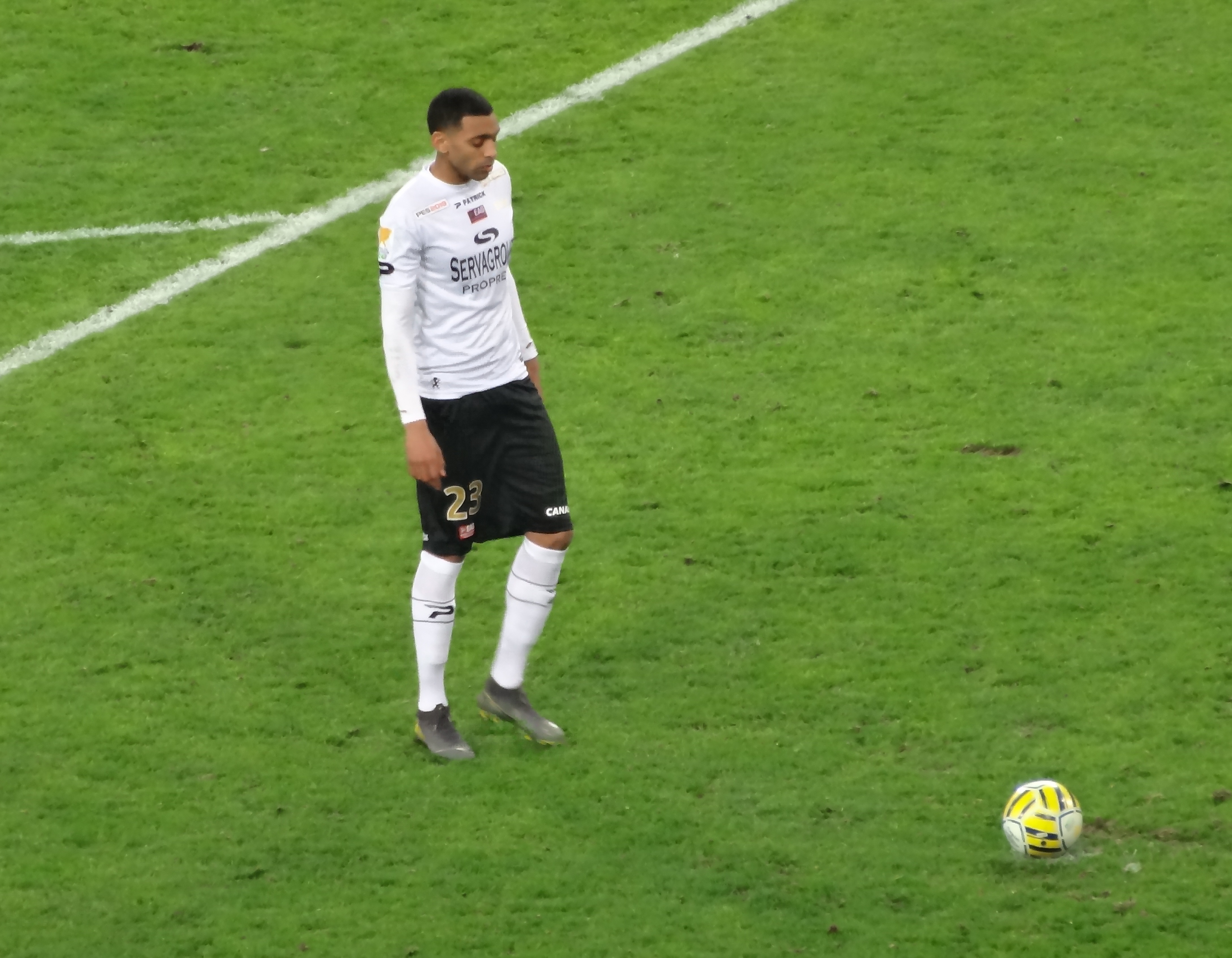 Ronny Rodelin (french League Cup 2019)